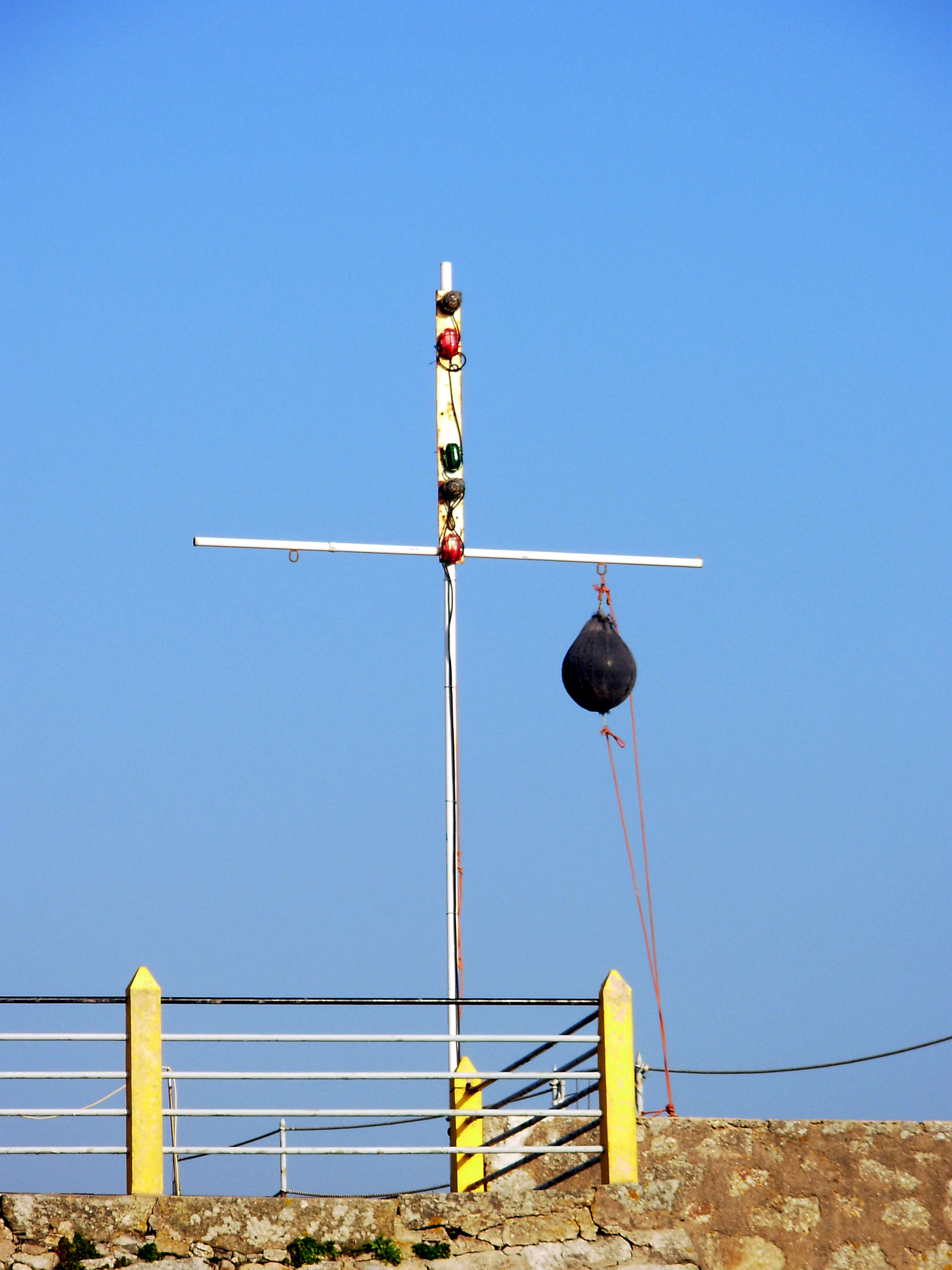 Lights, near Esposende Lighthouse, Portugal